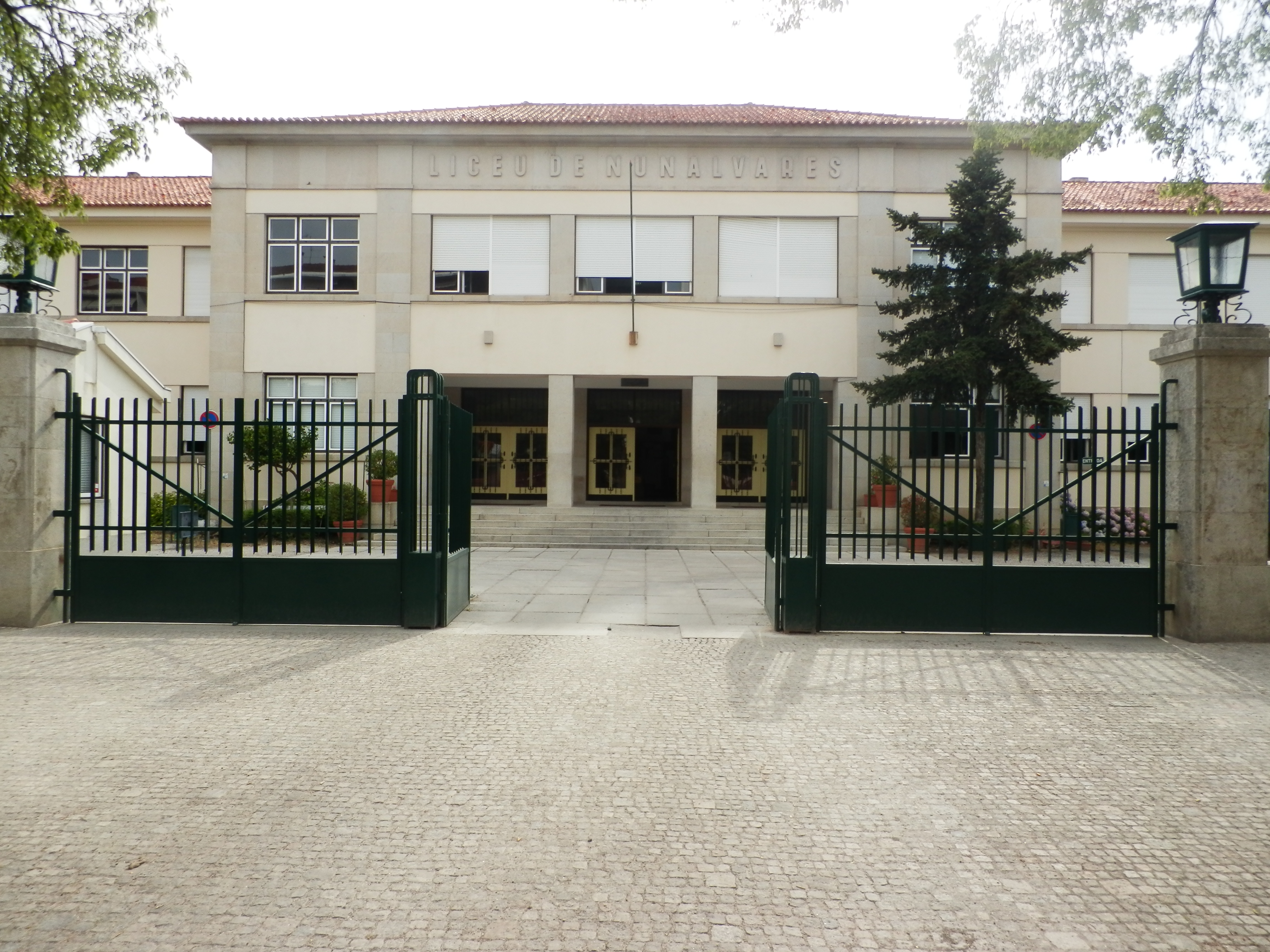 Entrance to Liceu de Nuno Álvares